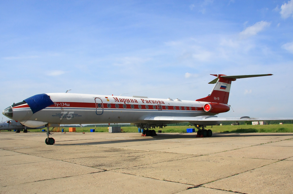 Tu-134Sh-1 "Marina Raskova" bomber crew trainer, complete with bomb racks on the ramp of 1449th Air Base Tambov